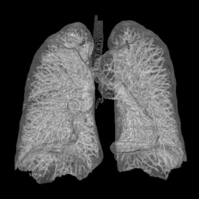 Human Thorax, Lung, 3D reconstruction from CT-scans